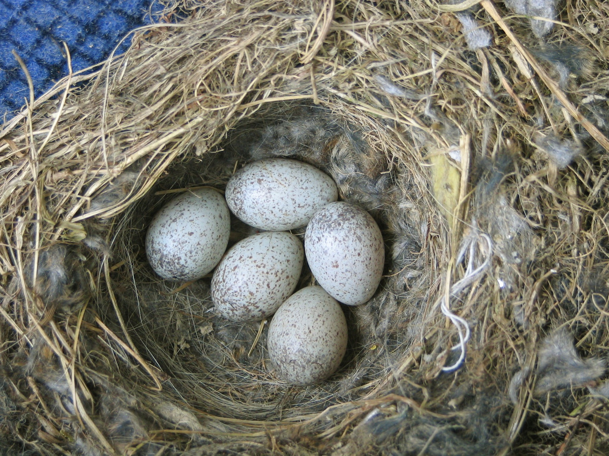 Nest With eggs